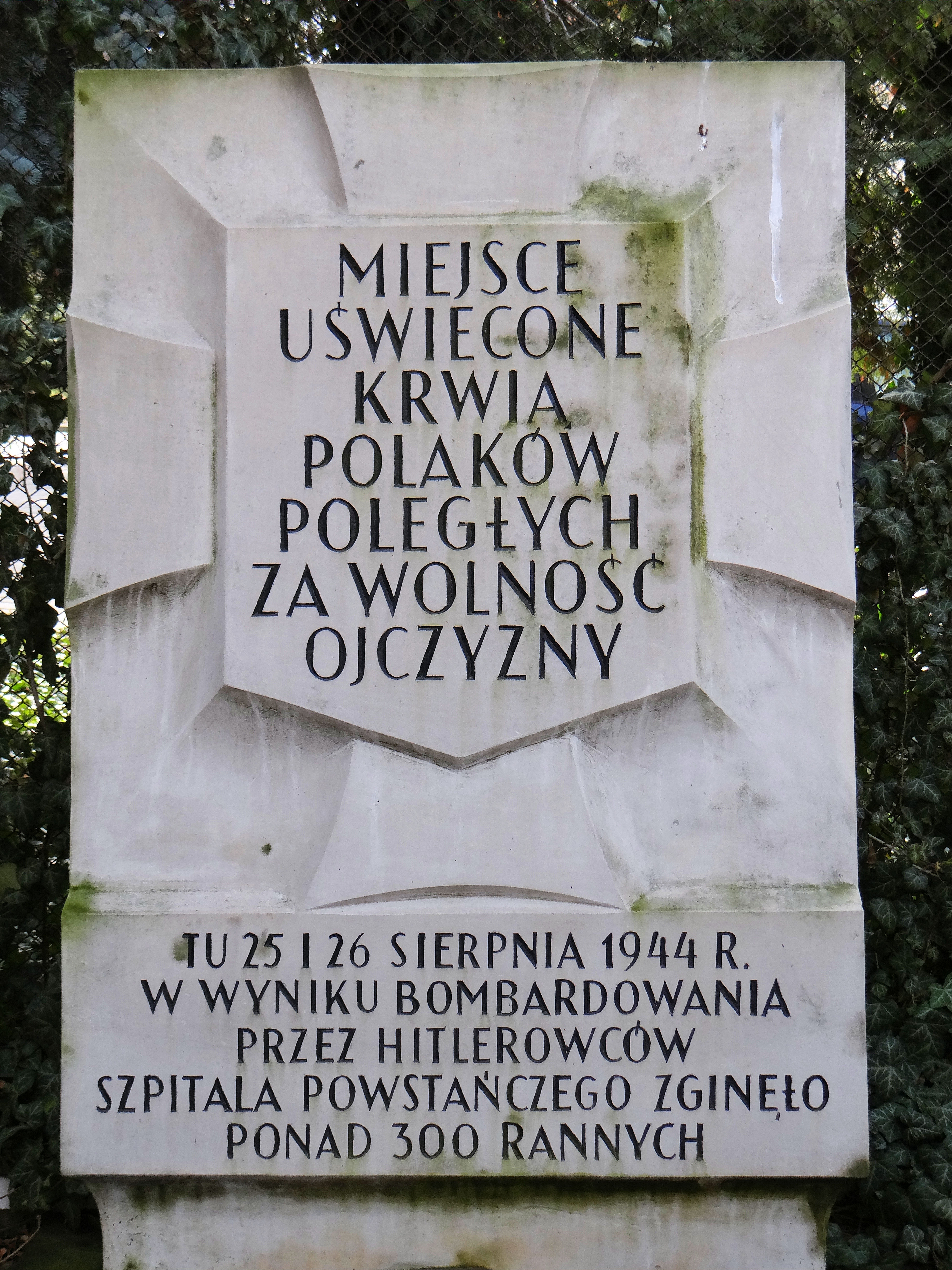 Place of National Memory at 19-21 Chełmska Street in Warsaw